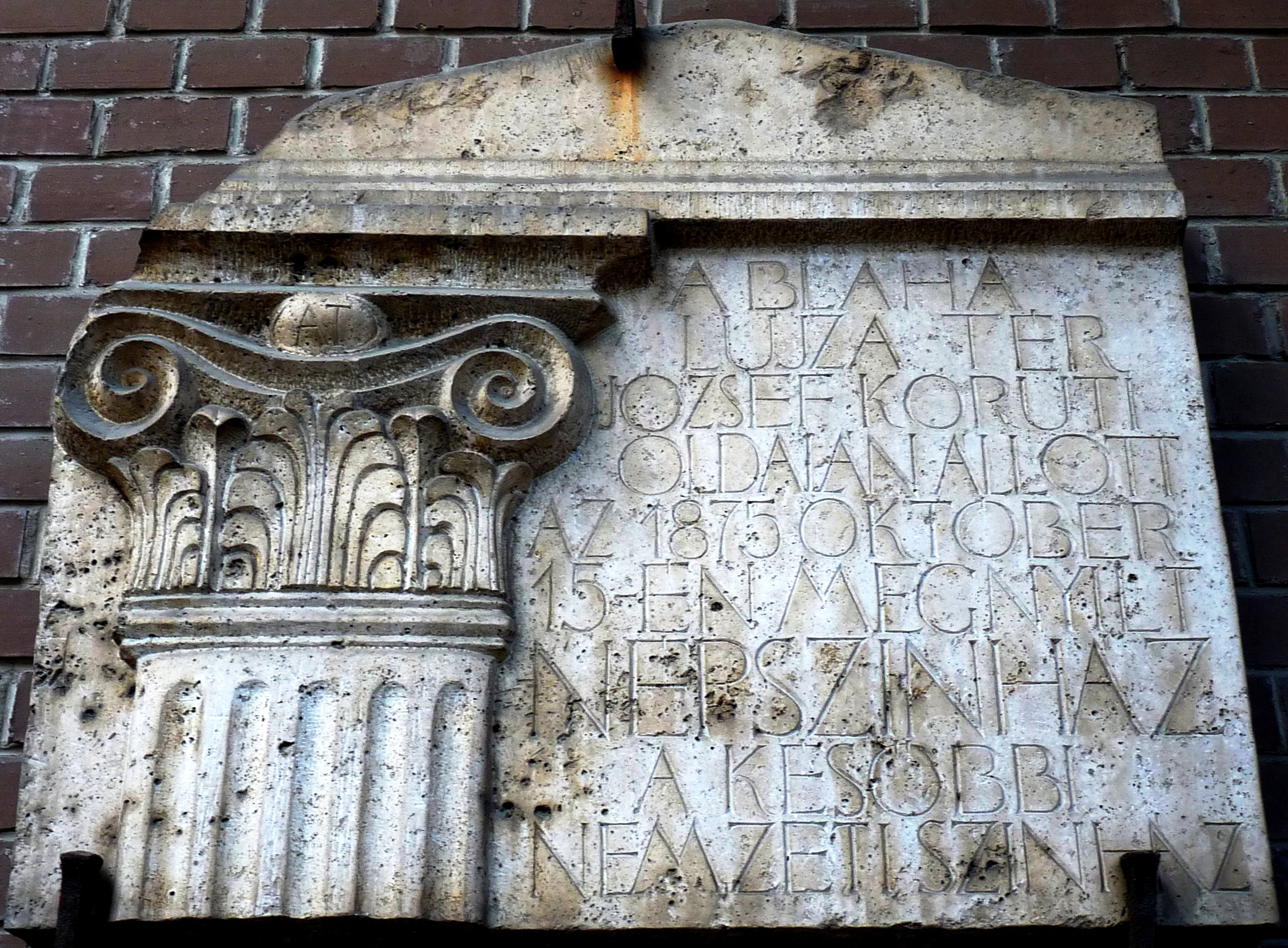 Commemorative plaque to the Népszínház (People's Theatre), in after years: Hungarian National Theatre in the street bearing its name. Author of the relief is Mr. Tamás Asszonyi. (Budapest, District VIII, Népszínház Street Nr 28).